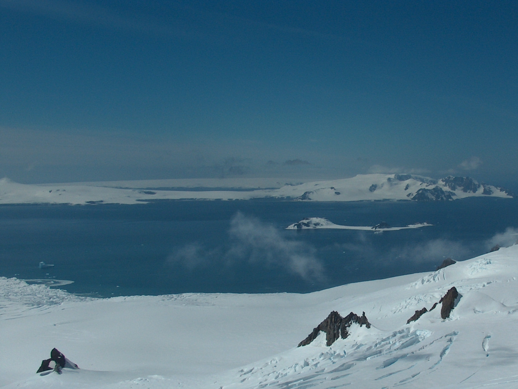 Greenwich Island from Tangra Mountains, Livingston Island. McFarlane Strait with Half Moon Island in the foreground, Robert Island in the background.